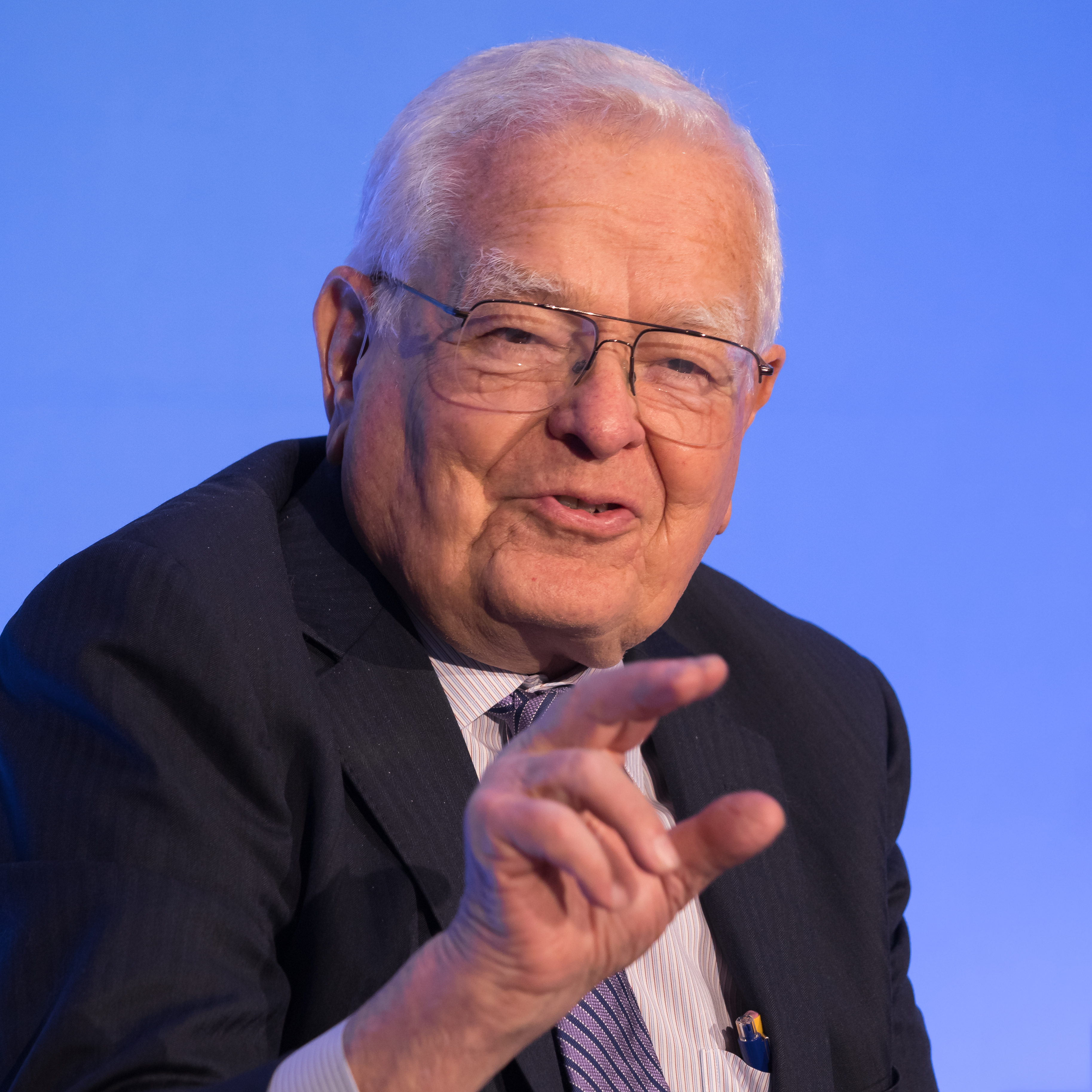 Roy Romer, who served as the 39th Governor of Colorado and served as the superintendent of the Los Angeles Unified School District from 2000 to 2006, at the ASU GSV Summit 2019 in San Diego